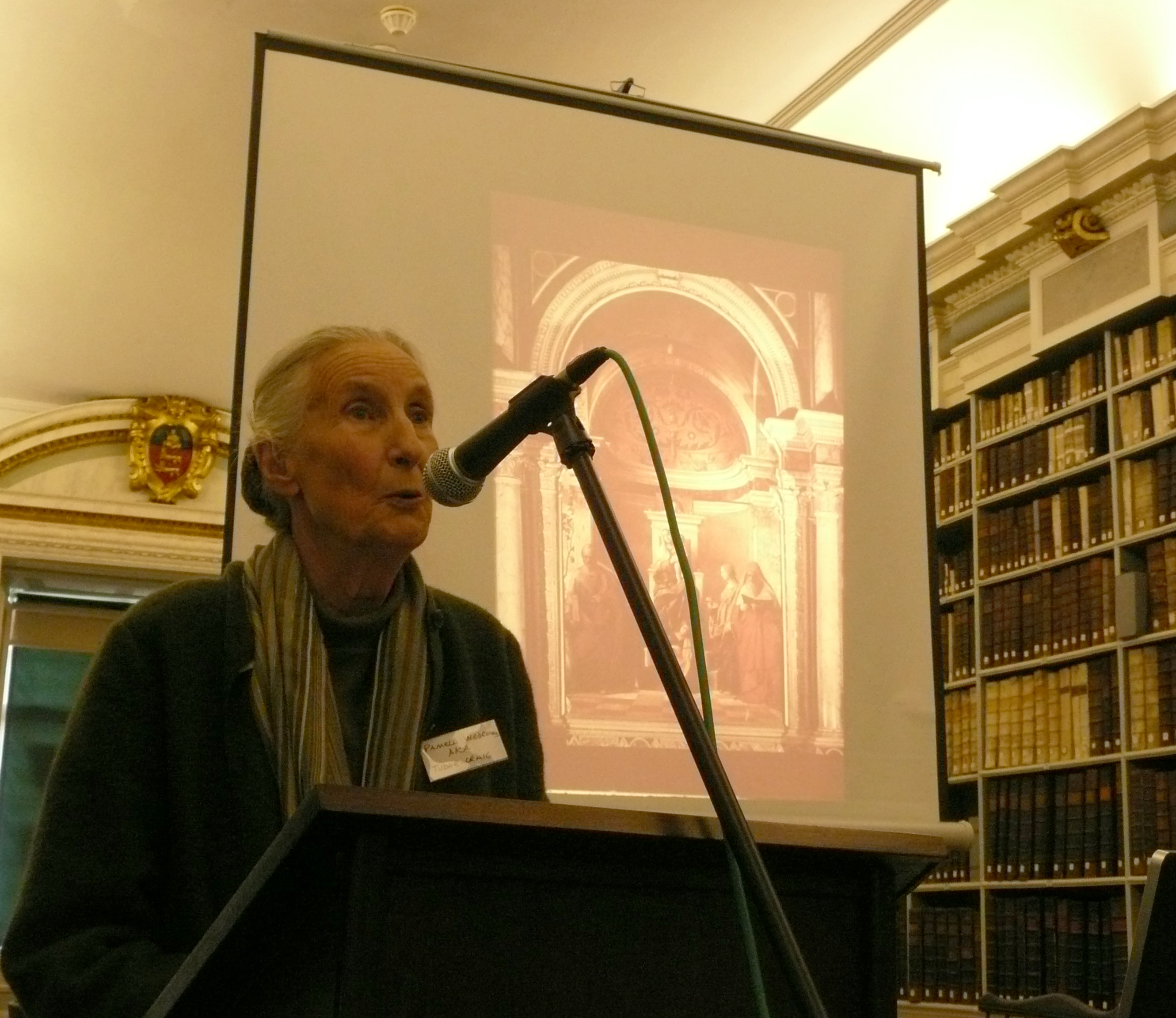 Pamela Tudor-Craig, Lady Wedgwood FSA, British mediaeval historian, one of four speakers at a Lincoln Cathedral conference on the significance of the Virgin Mary in the life of the contemporary Church in October 2009.